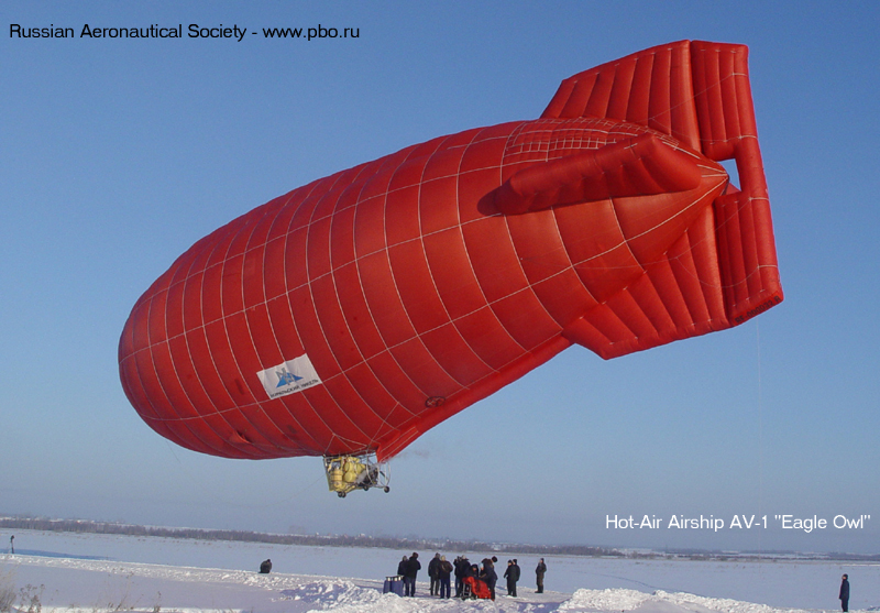 Hot-Air Airship AV-1 Eagle Owl